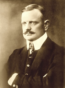 Composer Jean Sibelius